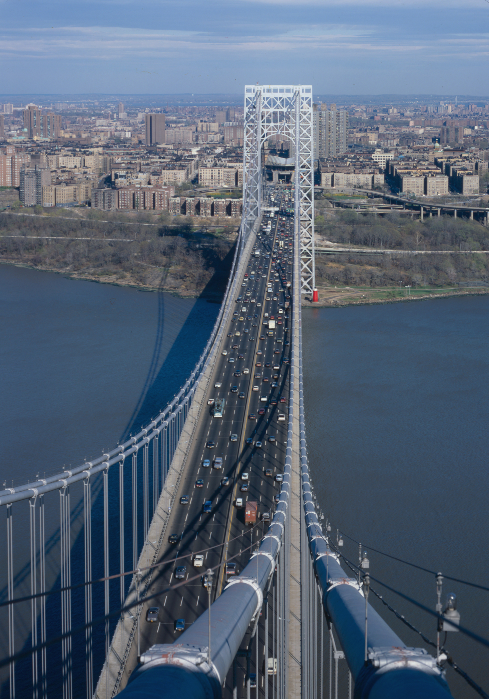 George Washington Bridge, spanning the Hudson River between New York City and New Jersey.View from top of New Jersey Tower to New York Tower.